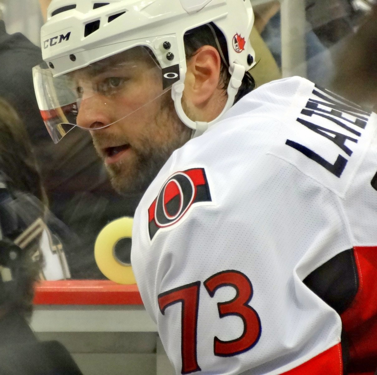 Ottawa Senators forward Guillaume Latendresse during game two of their second round series against the Pittsburgh Penguins, May 17, 2013 at Consol Energy Center in Pittsburgh, PA.